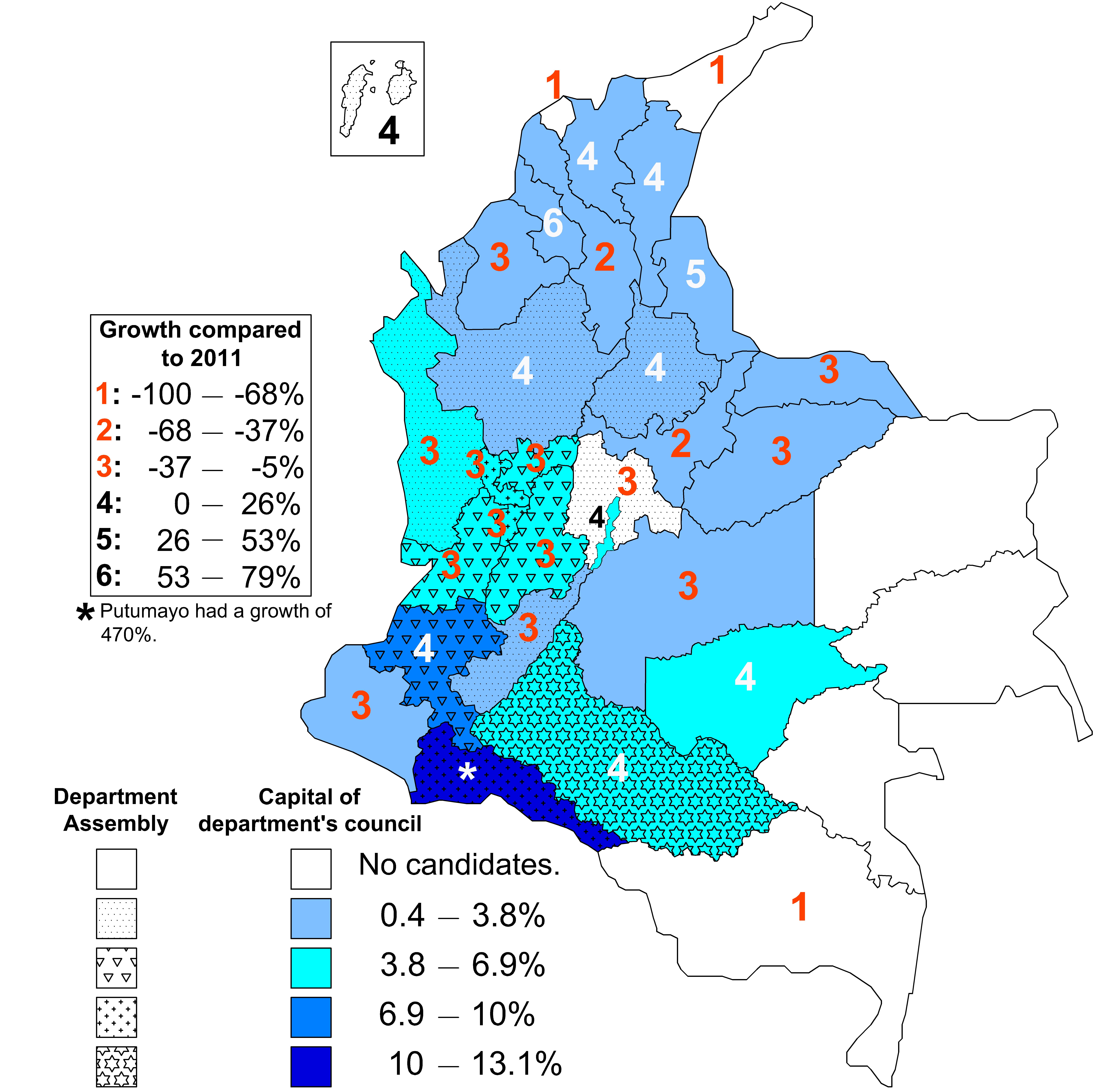 This map summarizes the preliminary results obtained by the MIRA Party in the of the 2015 regional and municipal elections of local authorities of Colombia. This is the map version for Wikipedia in English. This file replaces 2015 Local authorities elections MIRA Party.png.